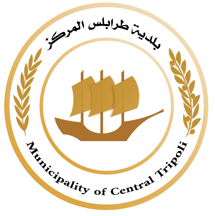 Coats of arms of Municipality of Central Tripoli